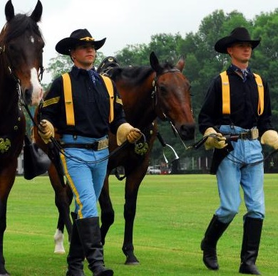 Two soldiers from the Horse Detachment of the 1st Cavalry Division wearing their distinctive parade uniforms.